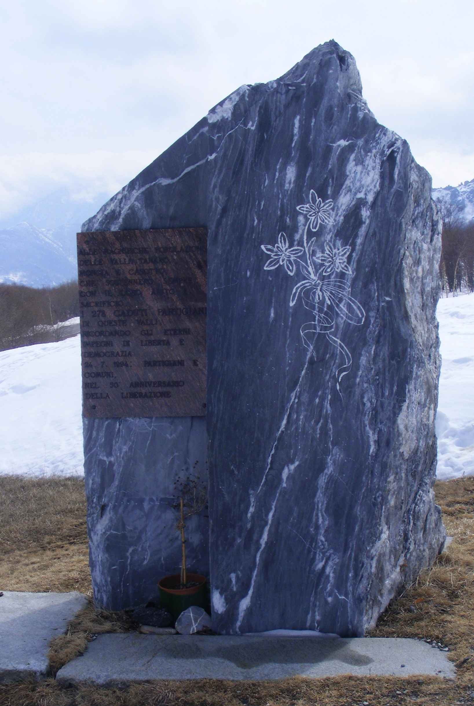 Colla di Casotto (CN, Italy): monument devoted to the local partisans